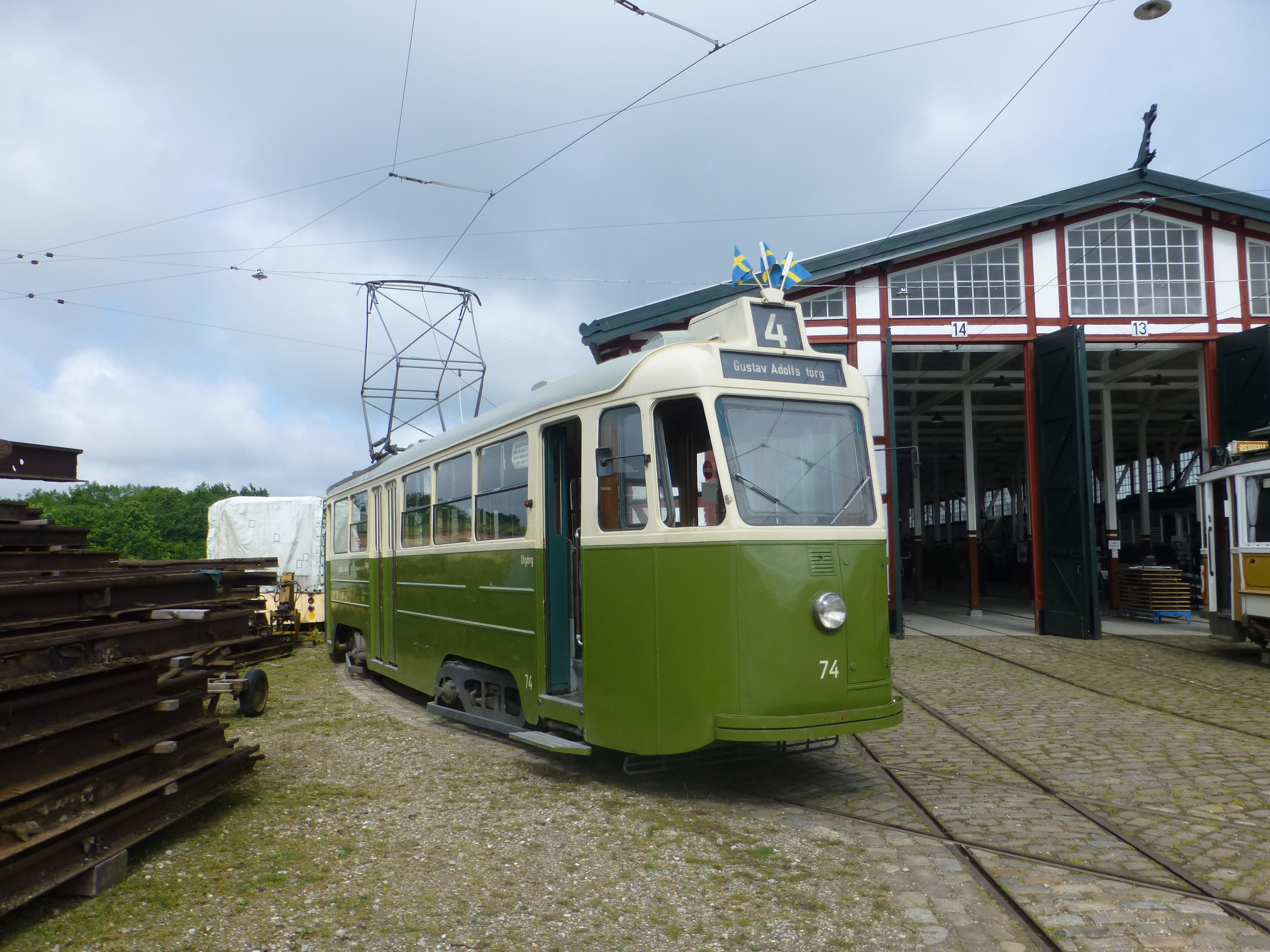 Before the tram parade at Sporvejsmuseet Skjoldenæsholm due to celebrating of 50 years of the Danish tramway society, Sporvejshistorisk Selskab. Tram from Malmö, ML 74 from 1946.